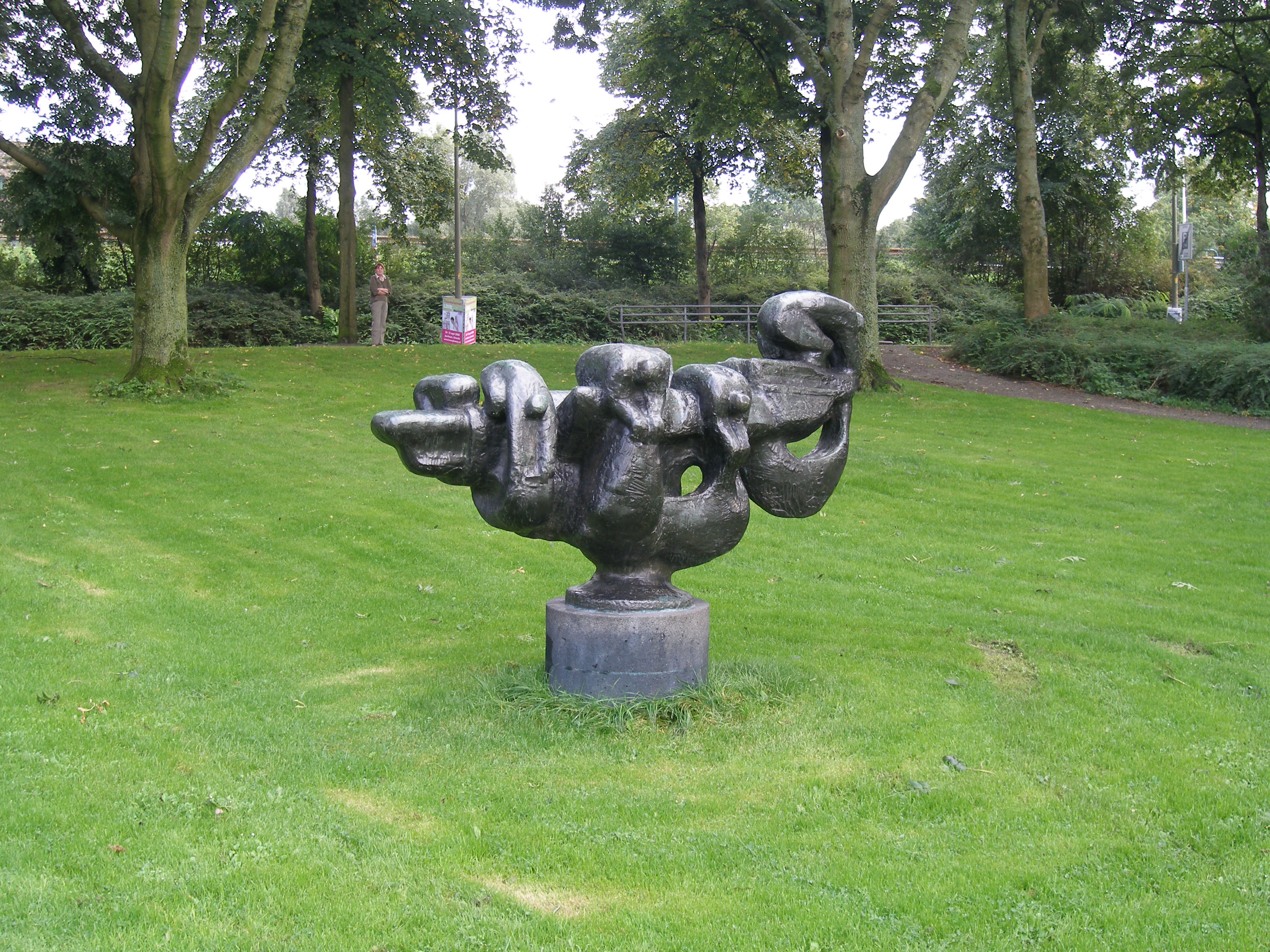 sculpture "Miraculous Draught of Fish" by Frans Gast in 1964 at the Tamboersdijk Utrecht